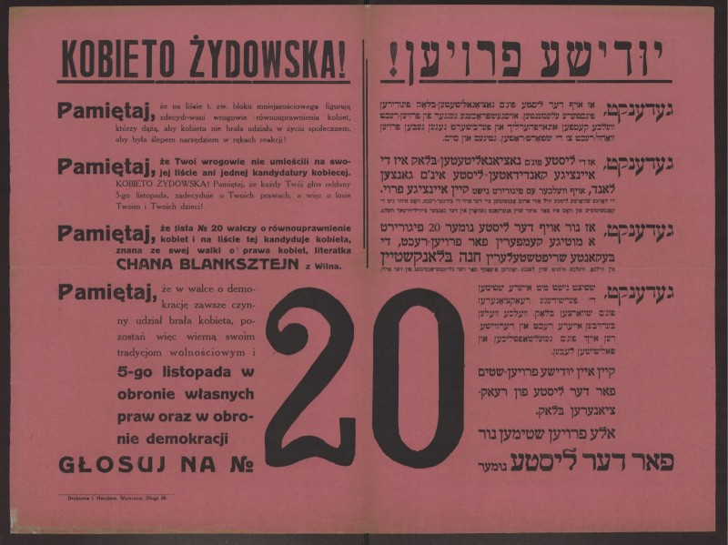 Bilingual (Polish and Yiddish) poster promoting the Jewish Democratic People's Block in the Polish legislative election, 1922